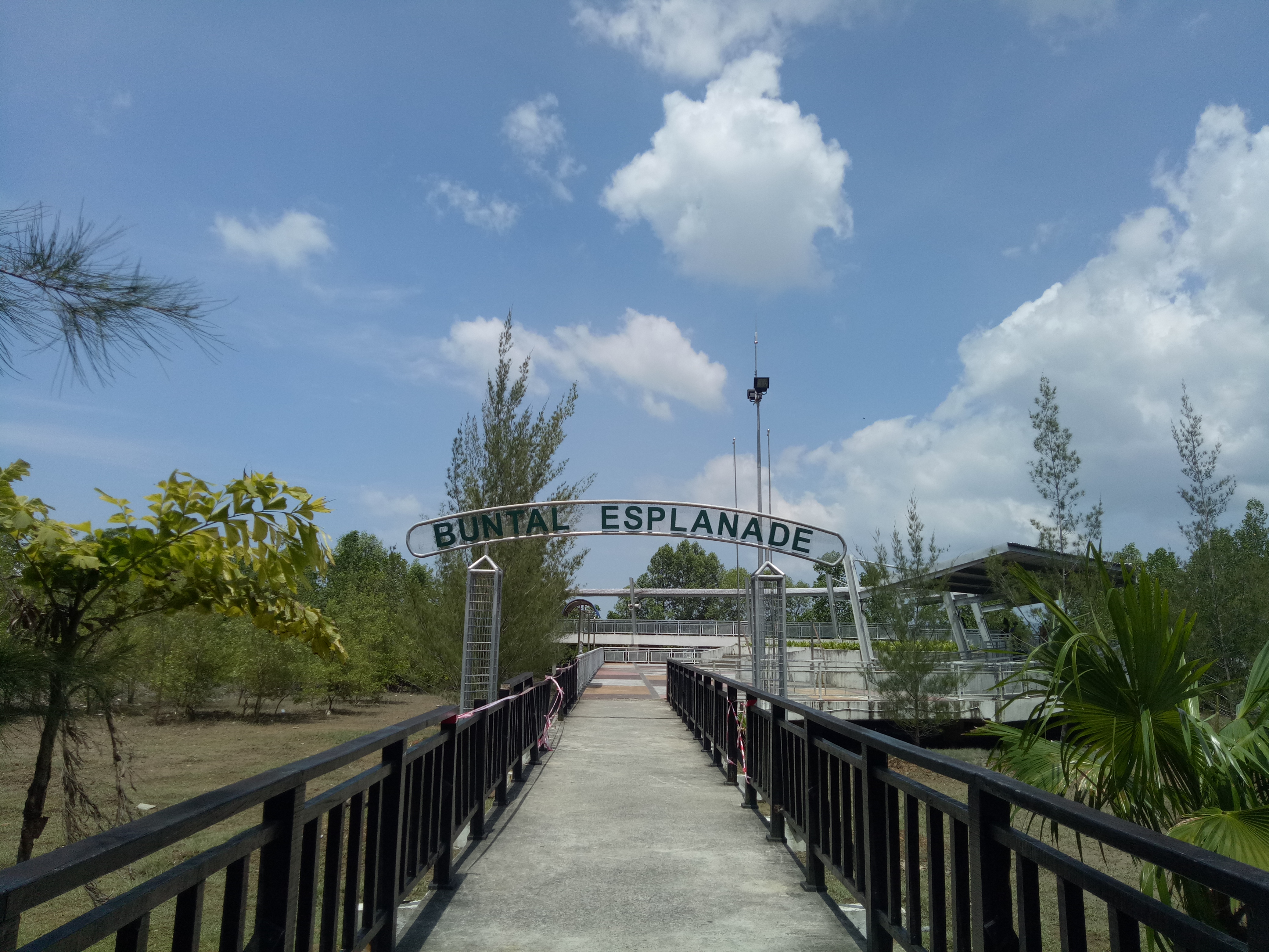 EsplanadeBuntal